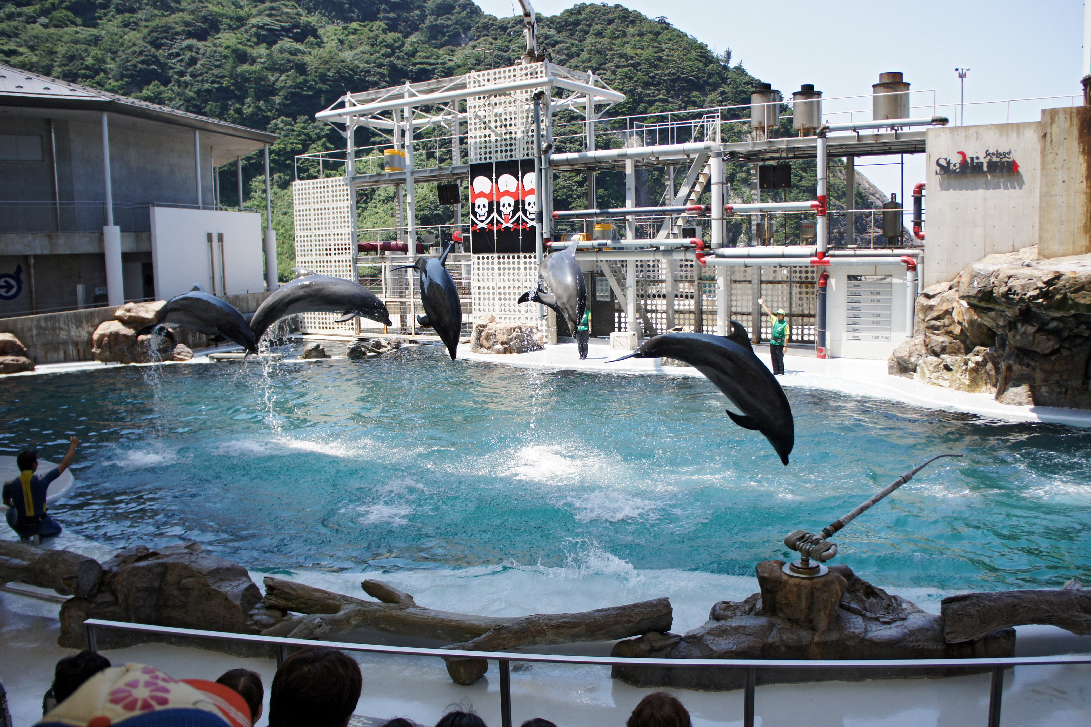 Kinosaki_Marine_World in Toyooka, Hyogo prefecture, Japan.